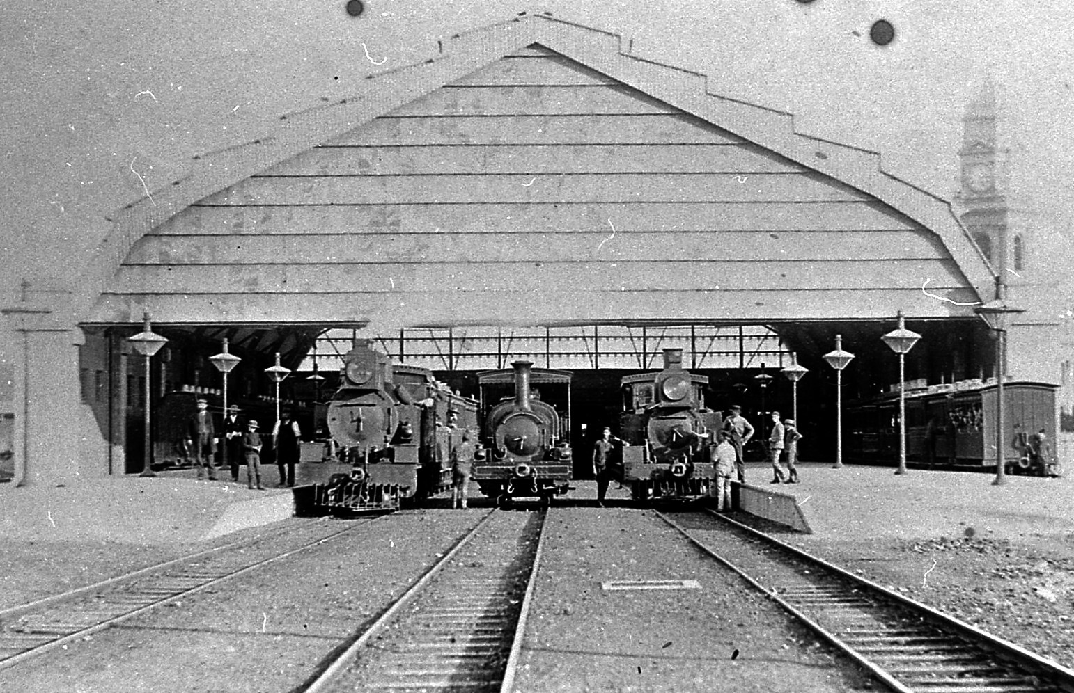 Durban station, Natal c. 1894 A trio of locomotives posing at Durban station. The photograph would have been taken after 1 December 1893, when the passenger terminal was opened.